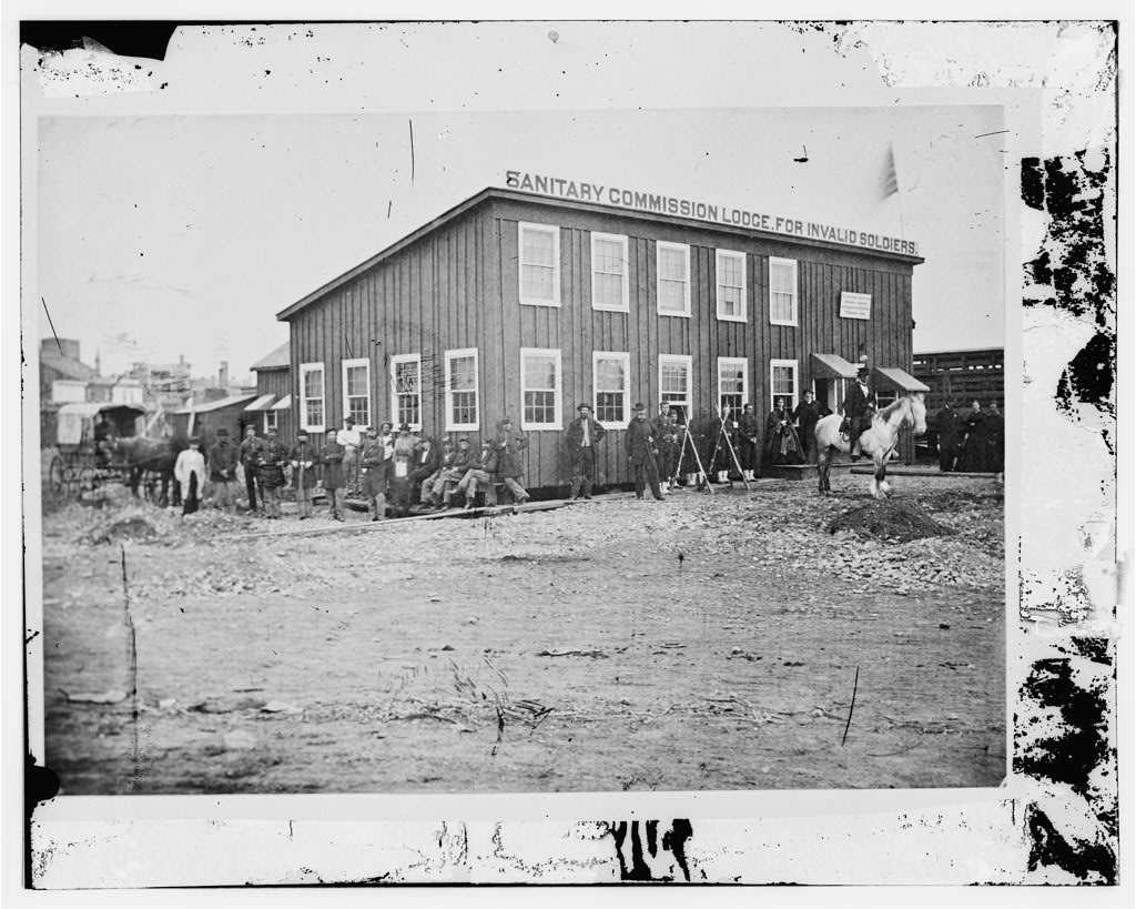 Sanitary Commission Lodge, Alexandria, Va. (1864) LC-B811-1203A (Library of Congress)